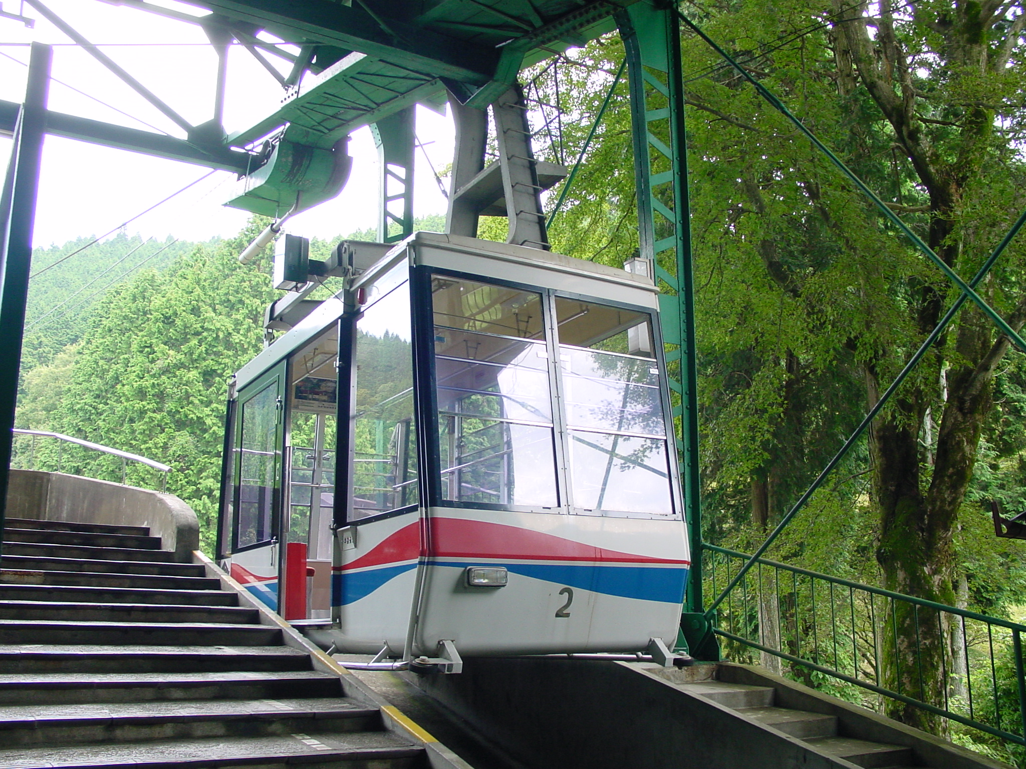 Eizan Ropeway, operated by Keifuku Electric Railroad, at Ropeway Hiei Station